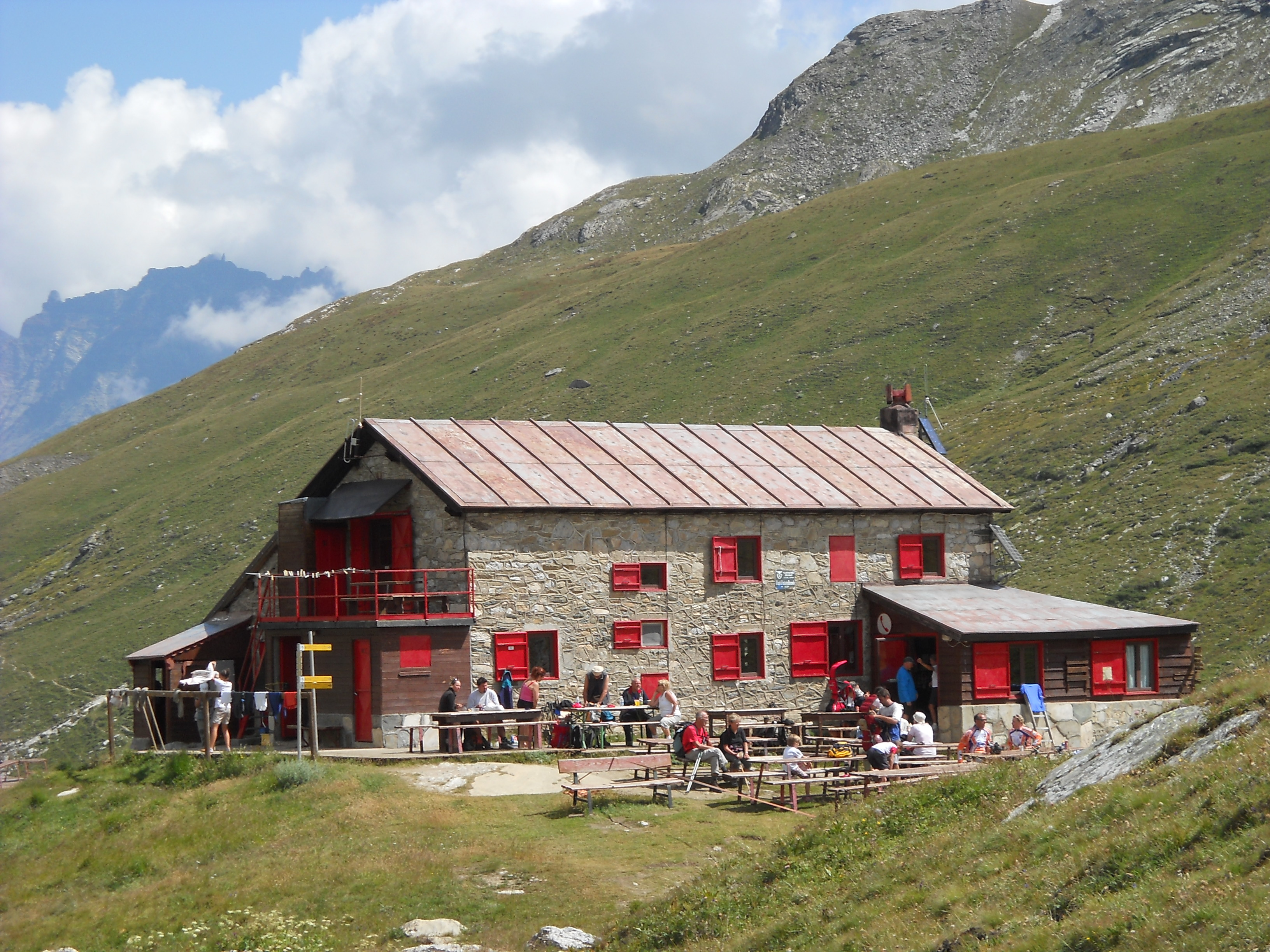 Refuge Jean-Frédéric Benevolo, Rhêmes-Notre-Dame, Aosta Valley, Italy